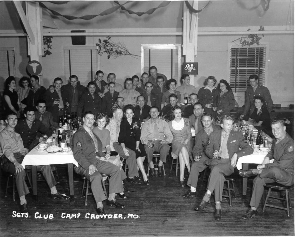 Sergeants' Club at Camp Crowder.